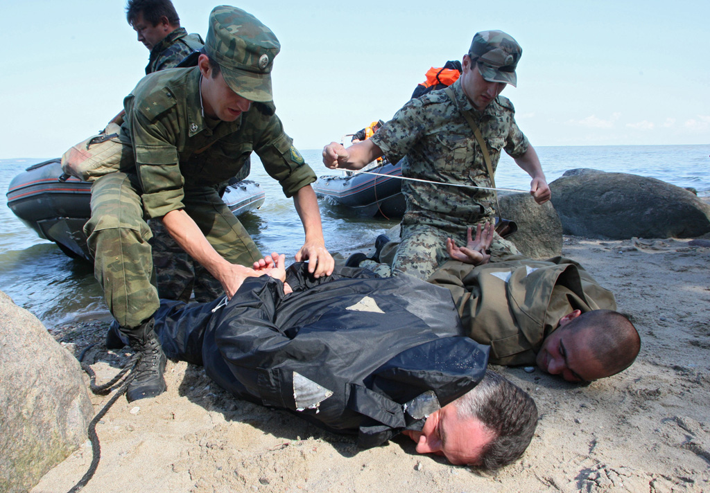 “Border guards of the Federal Security Service pursuing trespassers of the maritime boundary during exercises in Kaliningrad region”. Military drill near Mamonovo border-crossing point in Kaliningrad region. Border guards of the Federal Security Service arresting fictitious trespassers of the the maritime boundary.